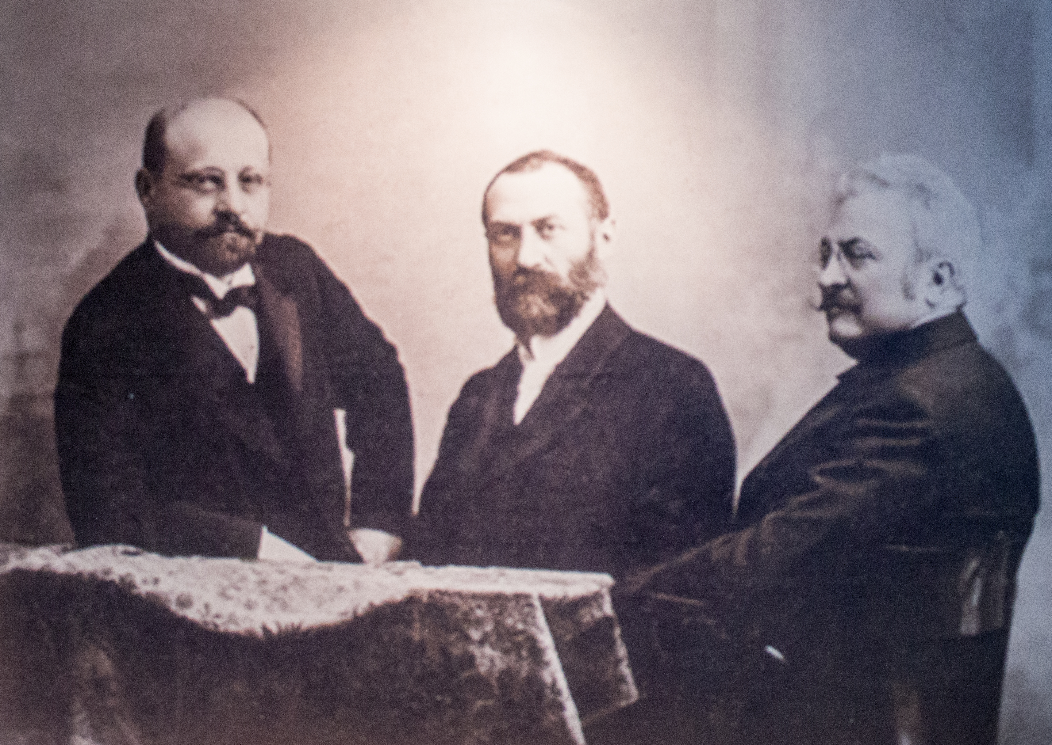 Miksa Déri, Ottó Bláthy, Károly Zipernowsky, Foundry Museum photo collectionlabel QS:Len,"Miksa Déri, Ottó Bláthy, Károly Zipernowsky, Foundry Museum photo collection" label QS:Lhu,"Déri Miksa, Bláthy Ottó, Zipernowsky Károly"